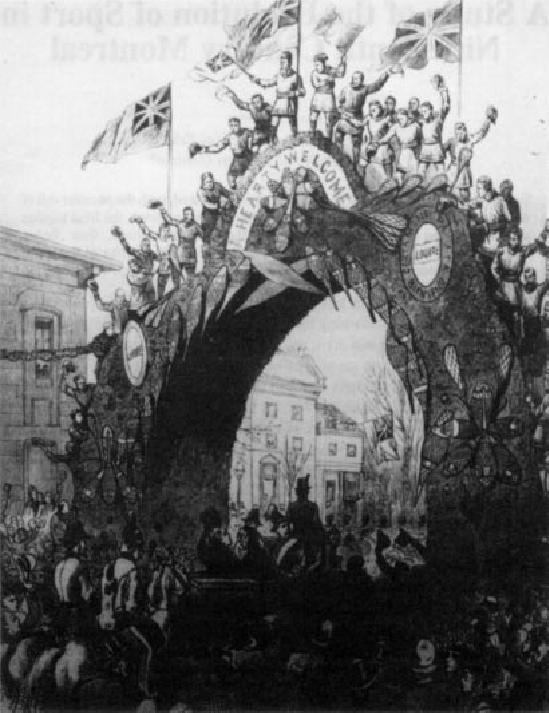 The Montreal Snow Shoe Club's arch constructed in 1878 to welcome the Governor-General, Lord Dufferin, to Montreal